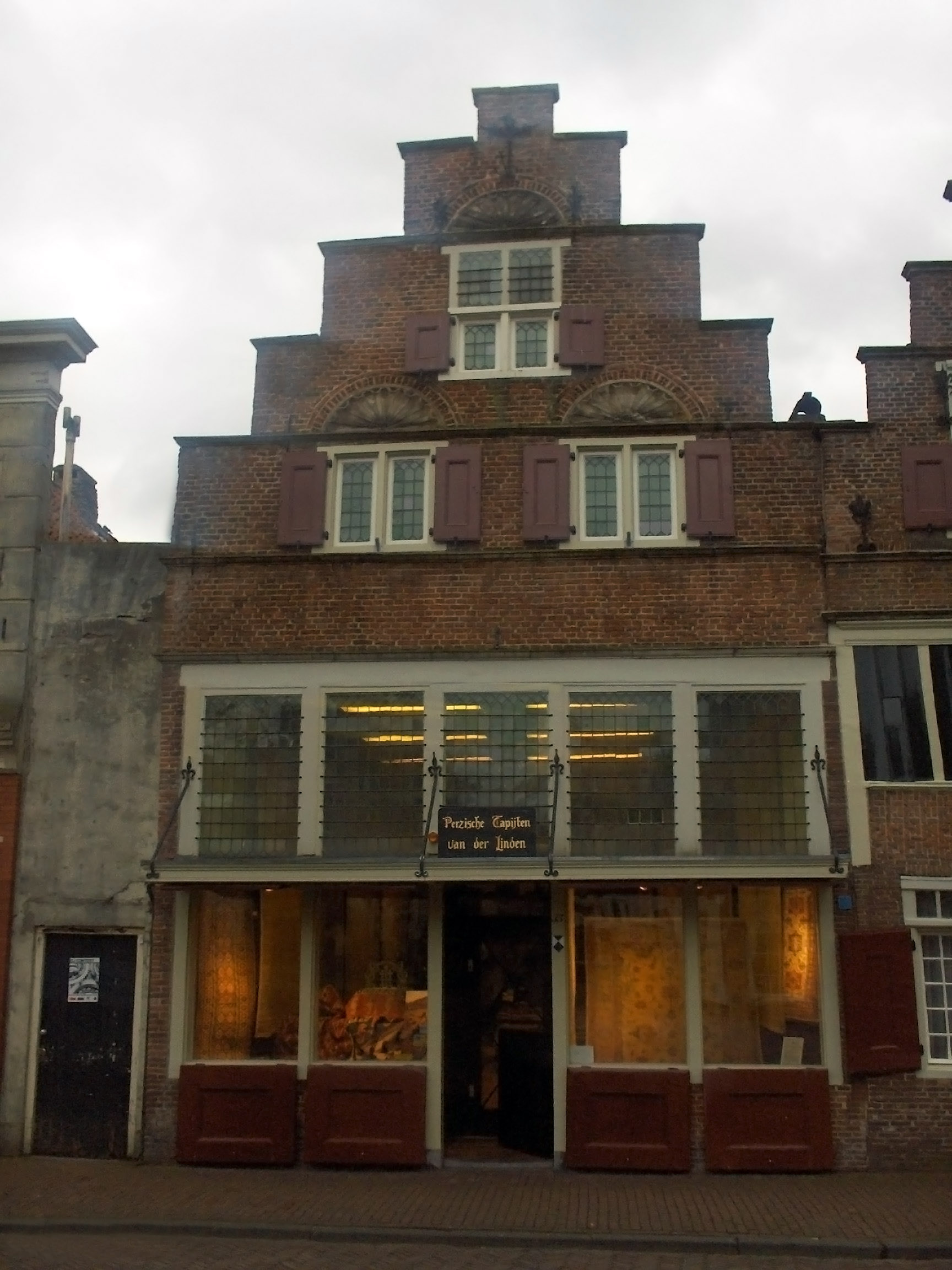 Amersfoort, Havik 35, a Persian Carpet Gallery in Amersfoort, photo by Pejman Akbarzadeh 2006